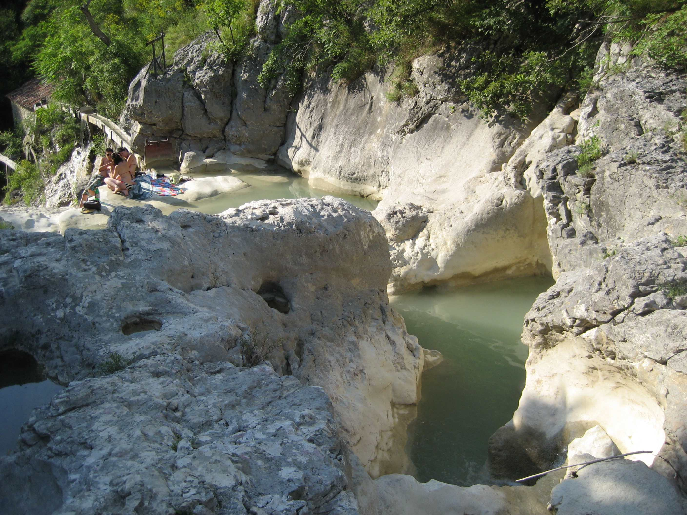 Mirna river near Kotli, Croatia